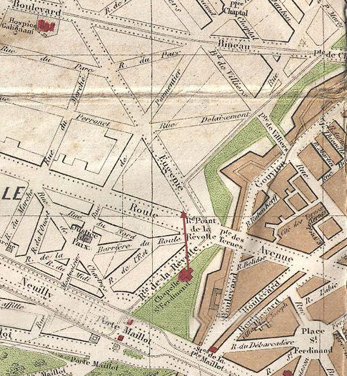 the complete map is a rare and extremely attractive map of Paris, France drawn by A. Vuillemin and issued by the Librarie Hachette in 1894. Drawn shortly after the 1889 Exposition Universelle, this is one of the earlier maps of Paris to depict the Eiffel Tower. Considering its date, this is also likely to be one of the last pans of Paris to be issued with hand rather than machine coloring. Covers the old walled city of Paris from the Bois de Boulogne in the west to the Bois de Vincennes in the east. All streets are labeled as are various gardens, rail lines, parks, and important buildings including the Louvre, the Eiffel Tower, the Invalids, Notre Dame, and countless others. Accompanied by a multipage street index and its original gray binder.